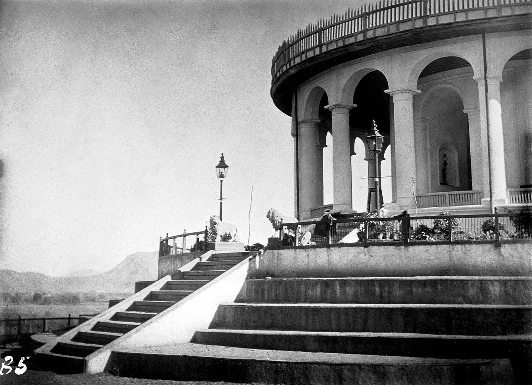 Detail of the entrance and stairs leading to the Hendaki Palace, Kabul Archives & Manuscripts Keywords: Architecture; Palace; Afghanistan; Architecture as Topic; Lillias Anna Hamilton; Lillias Anna Hamilton